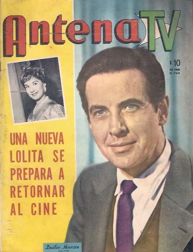 Duilio Marzio on cover of Antena TV, 1962